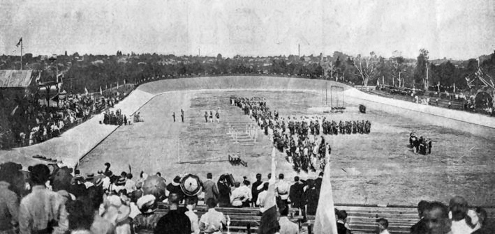 General view of the old Sports Ground, Ukraine in 1911.